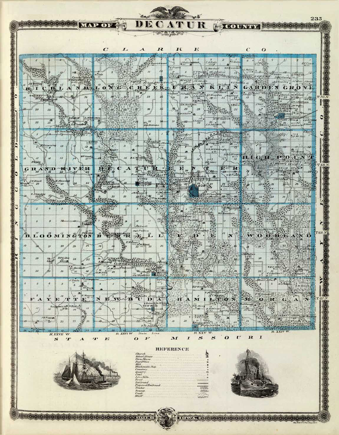 An old map of Decatur County, Iowa. Height: 44 cm (17.3 in); Width: 34 cm (13.3 in) dimensions QS:P2048,44U174728;P2049,34U174728